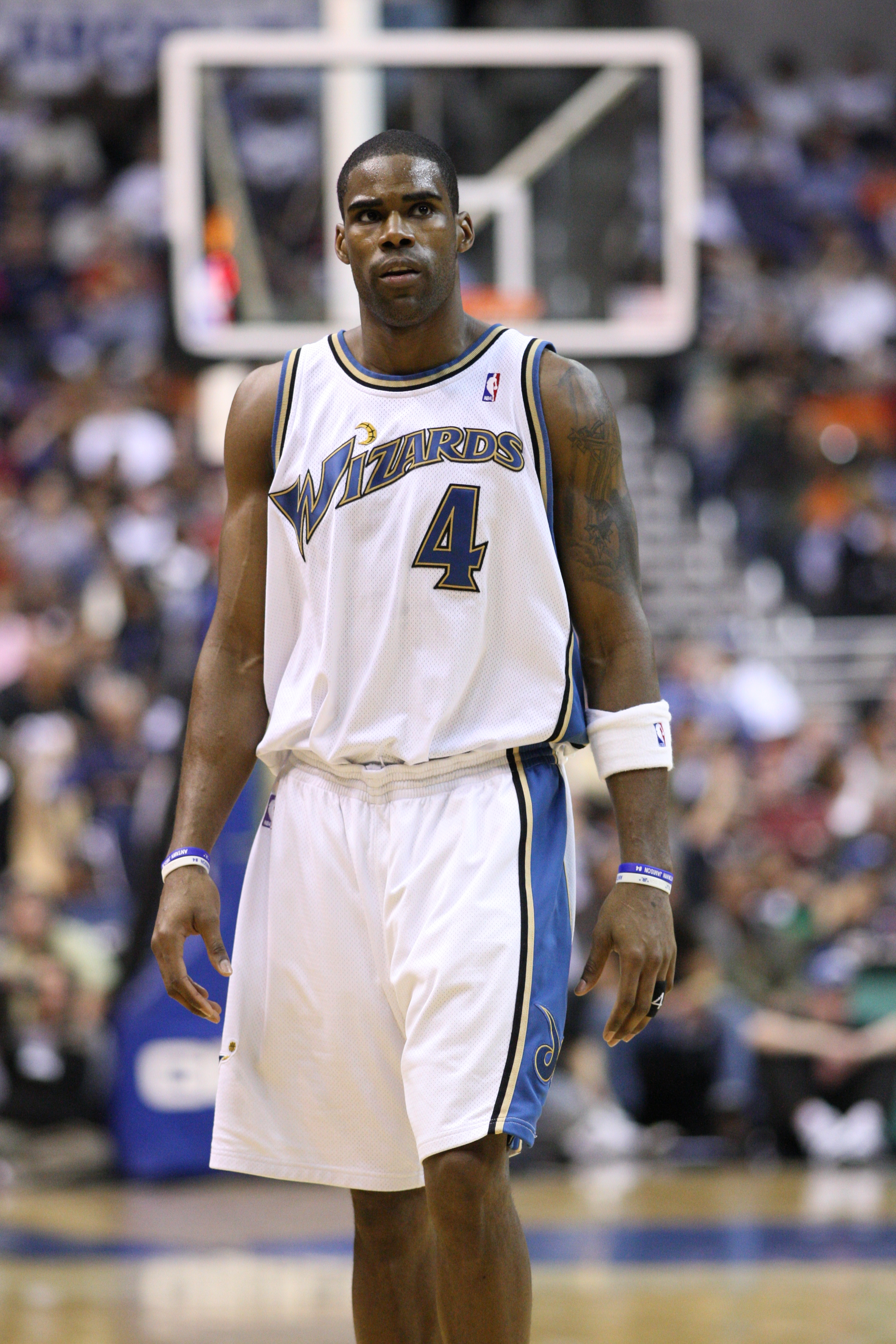 Antawn Jamison with the Washington Wizards, December 2007.